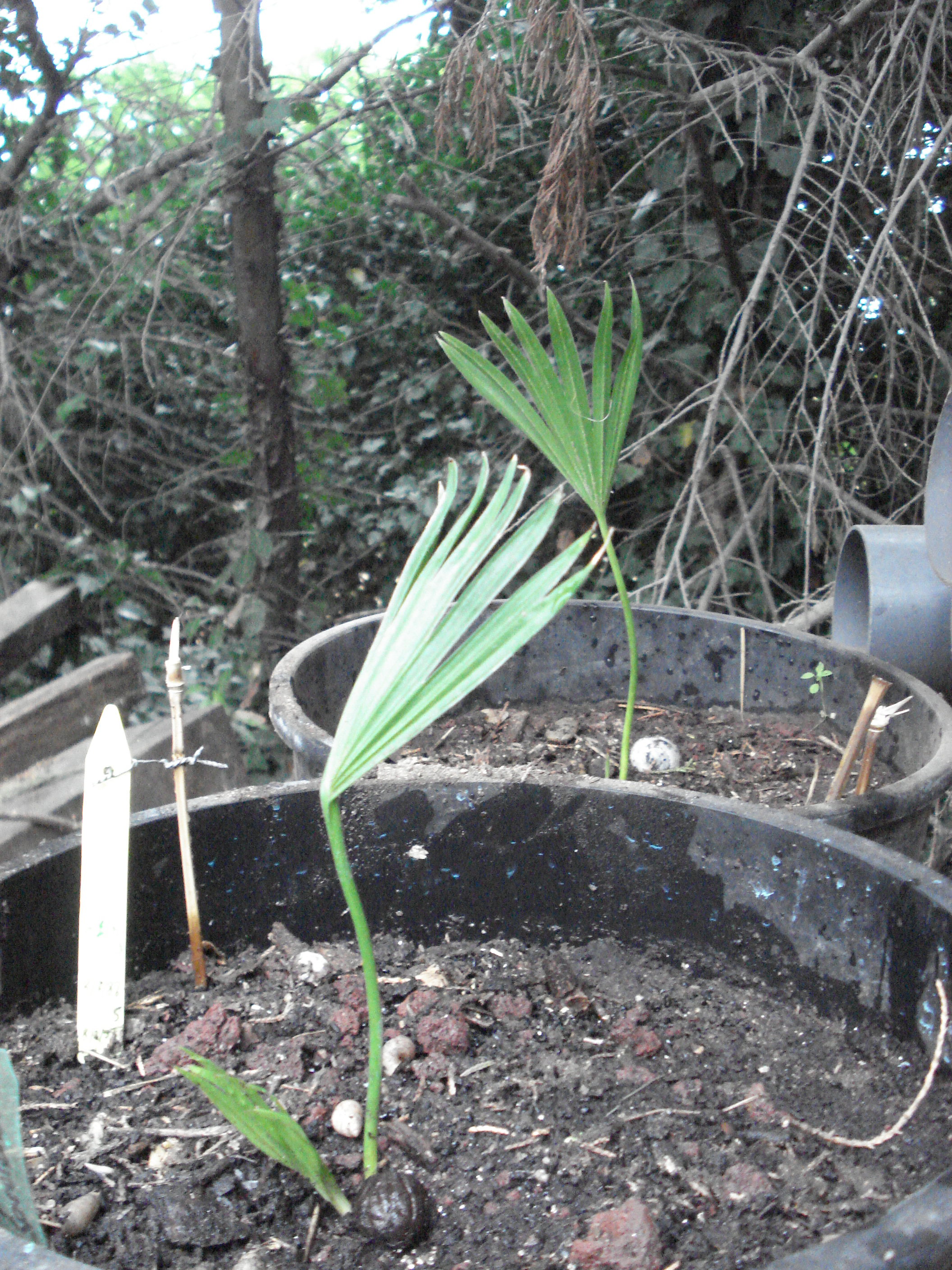 Tahina spectabilis of five month